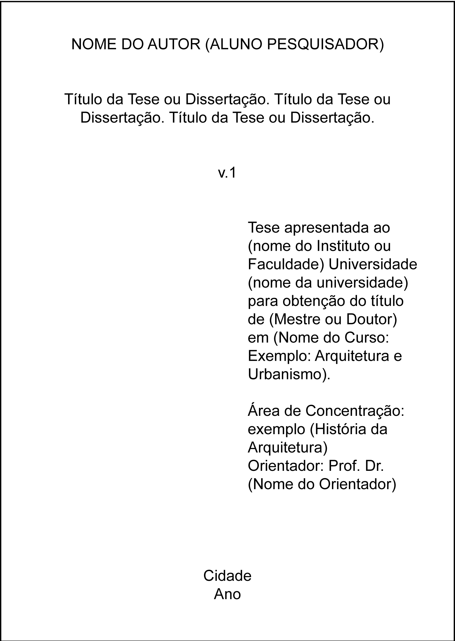 Exemplo de como pode se apresentar uma Folha de Rosto em um trabalho acadêmico como uma Tese ou Dissertação.